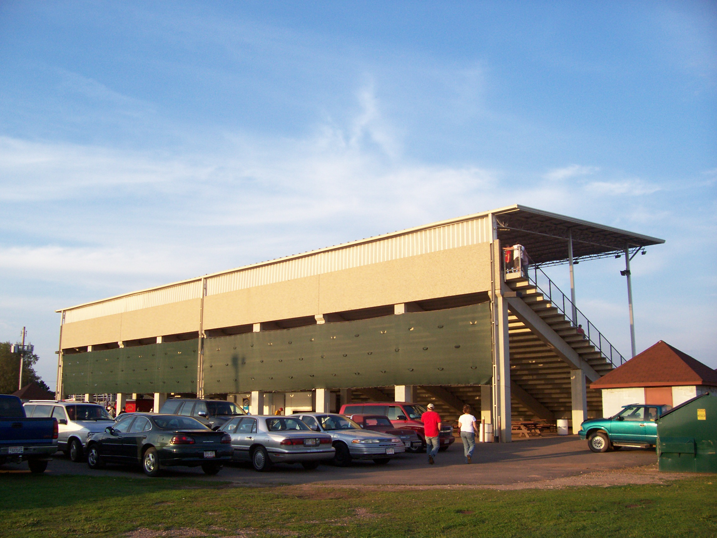 Picture of the Langlade County, Wisconsin Fairgrounds in Antigo, Wisconsin, USA, taken August 19, 2006 at the stock car races by User:Royalbroil.